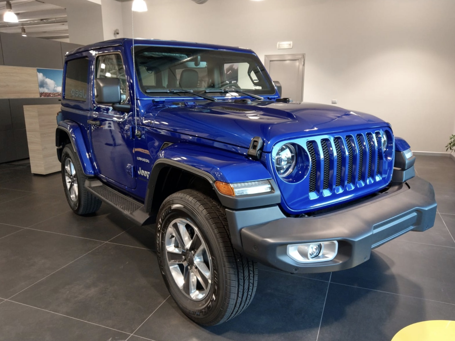 2018 Jeep Wrangler JL 3-door 2.2 Multijet II 200